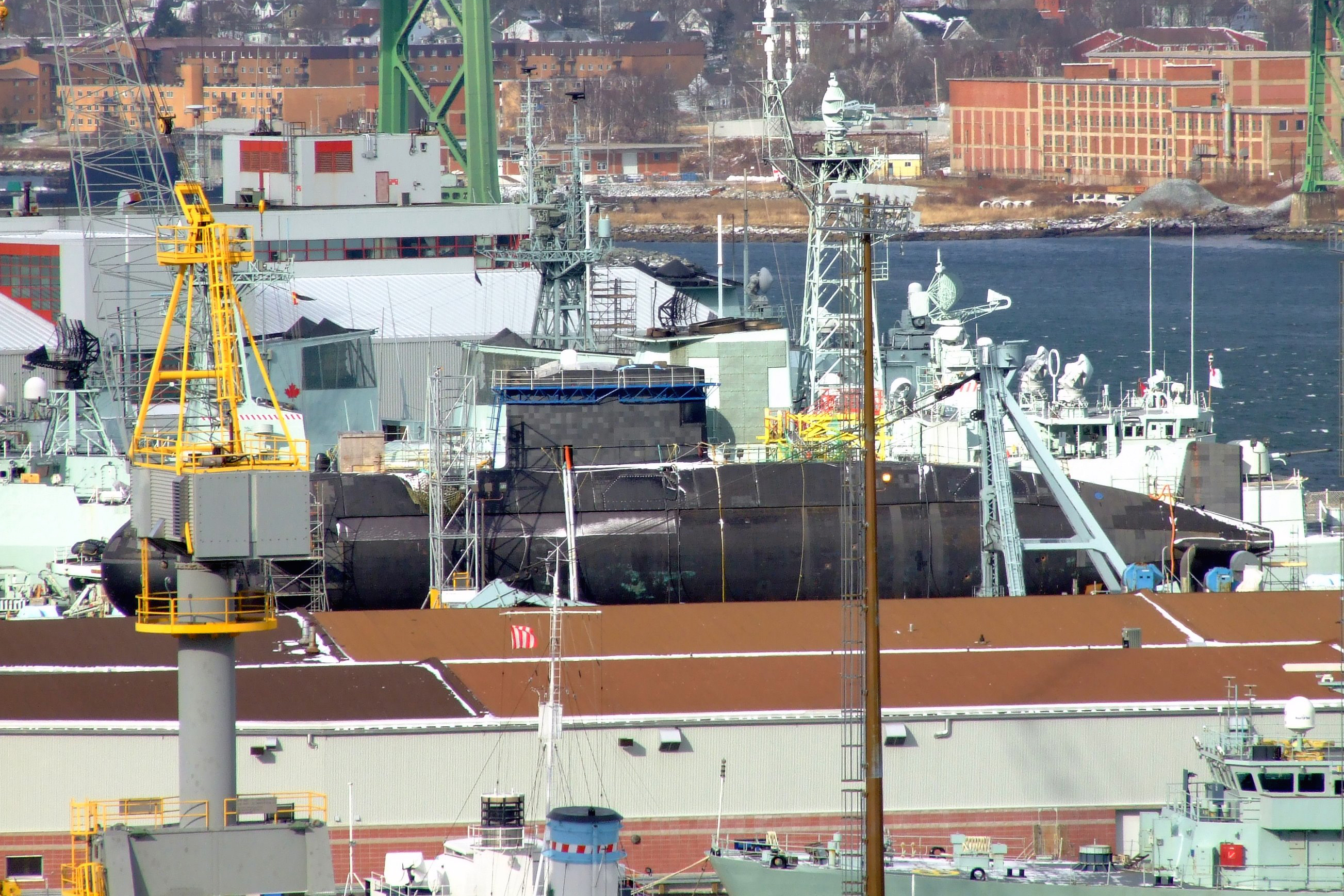 HMCS Chicoutimi in dry dock in HMC Dockyard Halifax, January 2007.